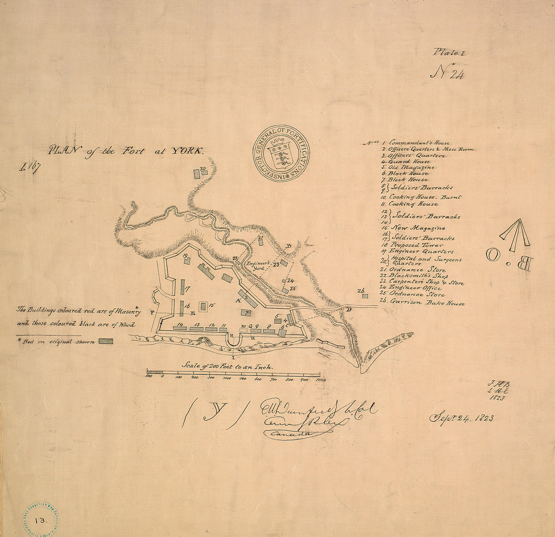 This diagram shows the second fort, built to replace the original fort which was destroyed during the Battle of York during the War of 1812 at the location of what is now Toronto, Ontario, Canada. In the fall of 1813, new barracks, blockhouses and magazines were built. Helped by better trained troops, the new fortification was strong enough to withstand a third attack by the Americans in 1814.